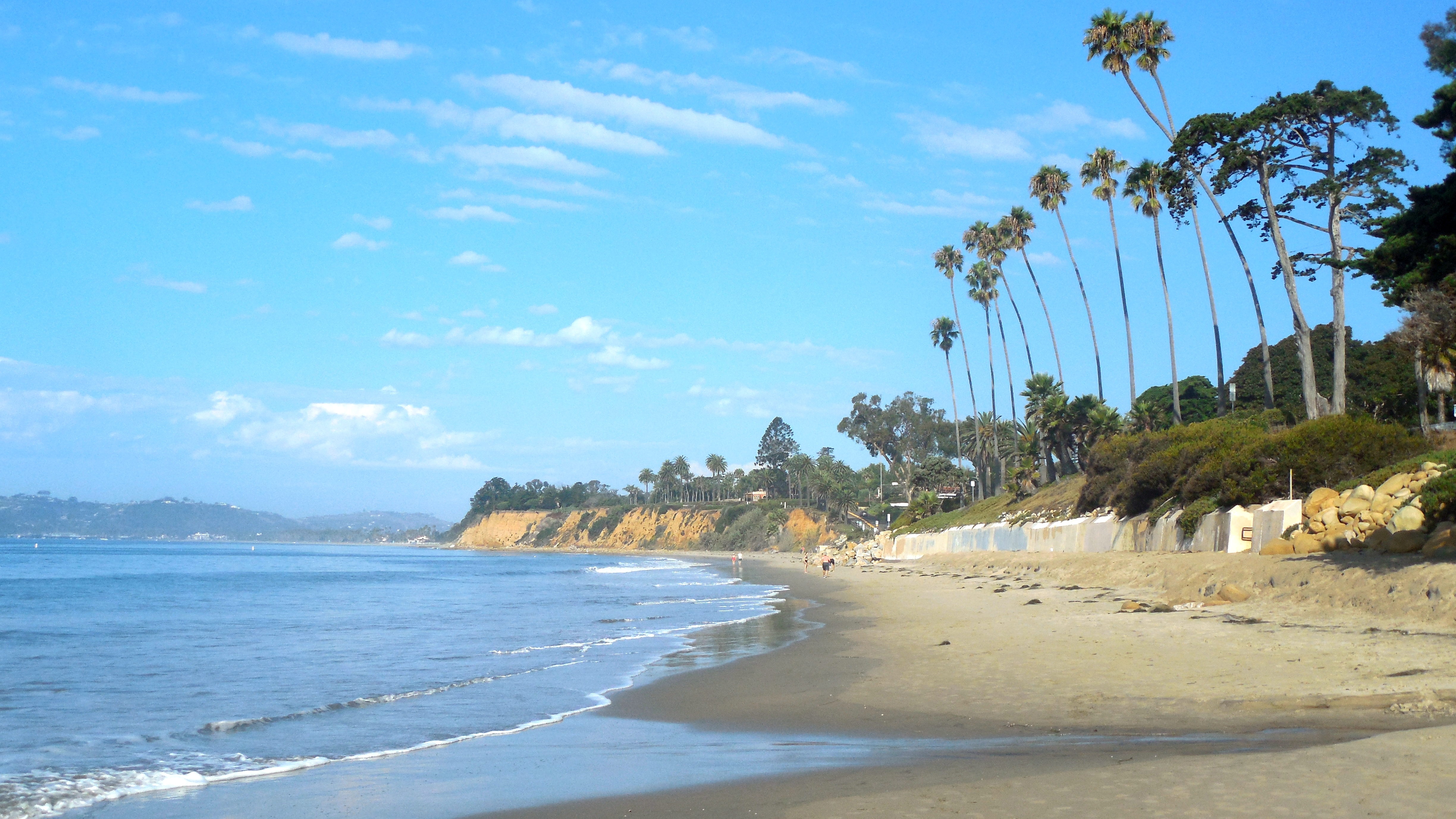 Westward view of Butterfly Beach, Santa Barbara, California, 2017